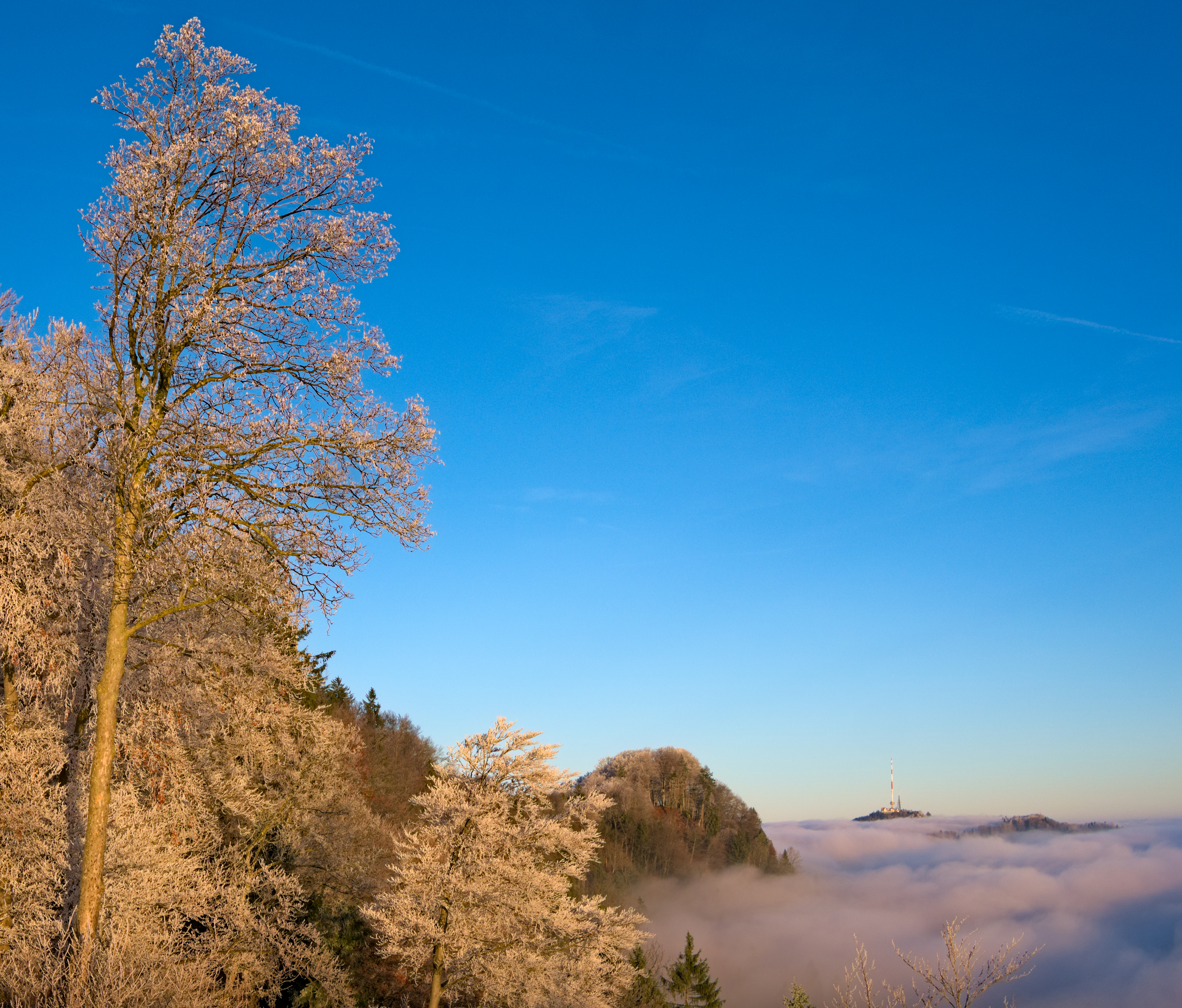 View from Felsenegg towards north, with the Üetliberg and its TV tower visible in the background. The trees are frosty and the sun had just risen. Below the sea of fog are the Sihl valley and Zurich.